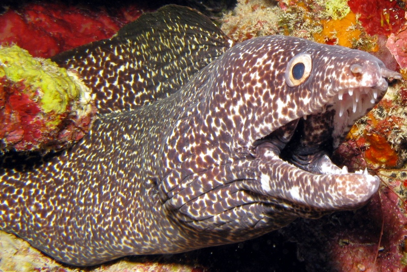 Spotted Moray Eel (Gymnothorax moringa), taken in Belize